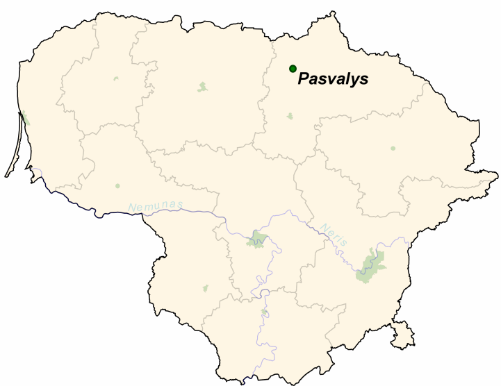 Pasvalys on the map of Lithuania